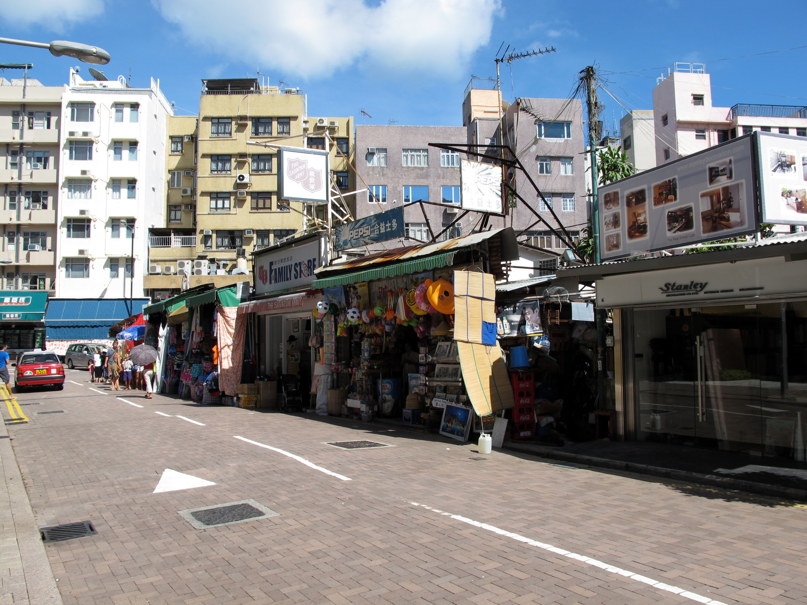 Stanley Market Road 赤柱市場道